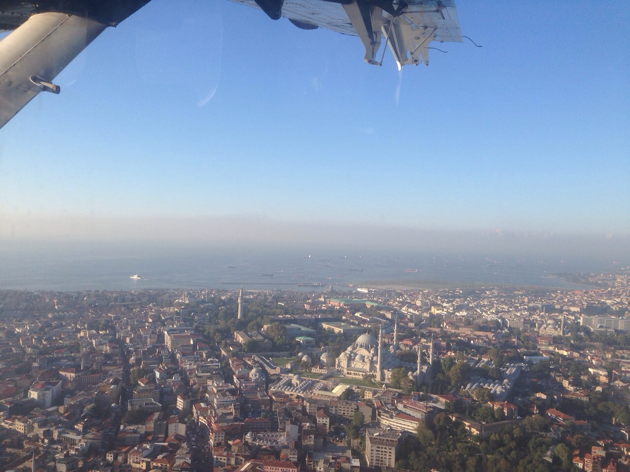 İstanbul, Fatih-Süleymaniye Mosque-Beyazıt Tower, Oct 2014, View from seaplane